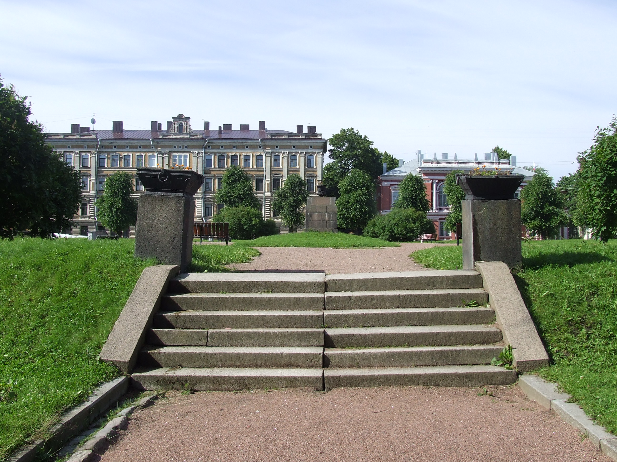 A park at the place of the former Vyborg Cathedral.